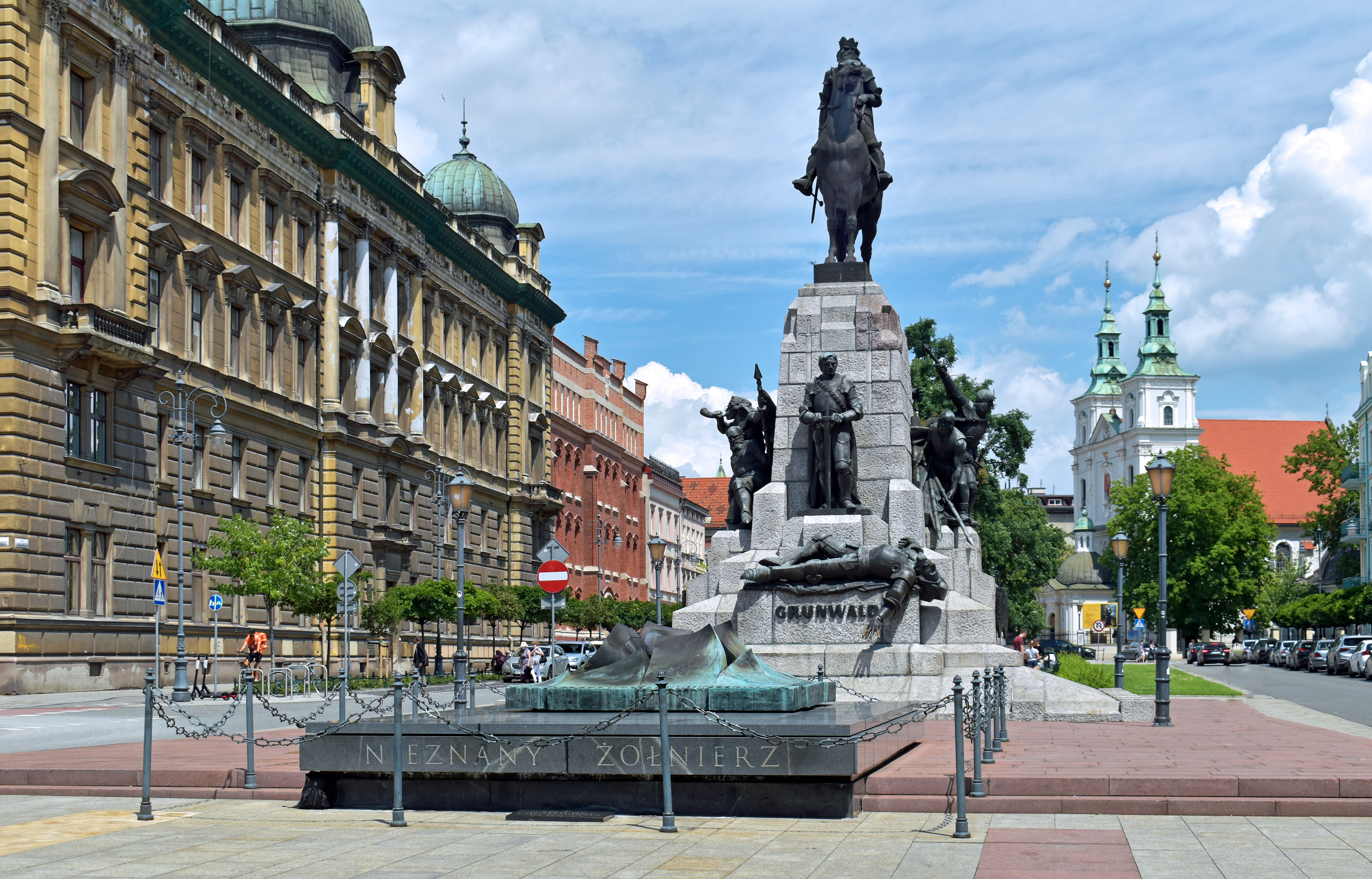 Grunwald Monument and Tomb of the Unknown Soldier, Matejko square, Kraków, Poland